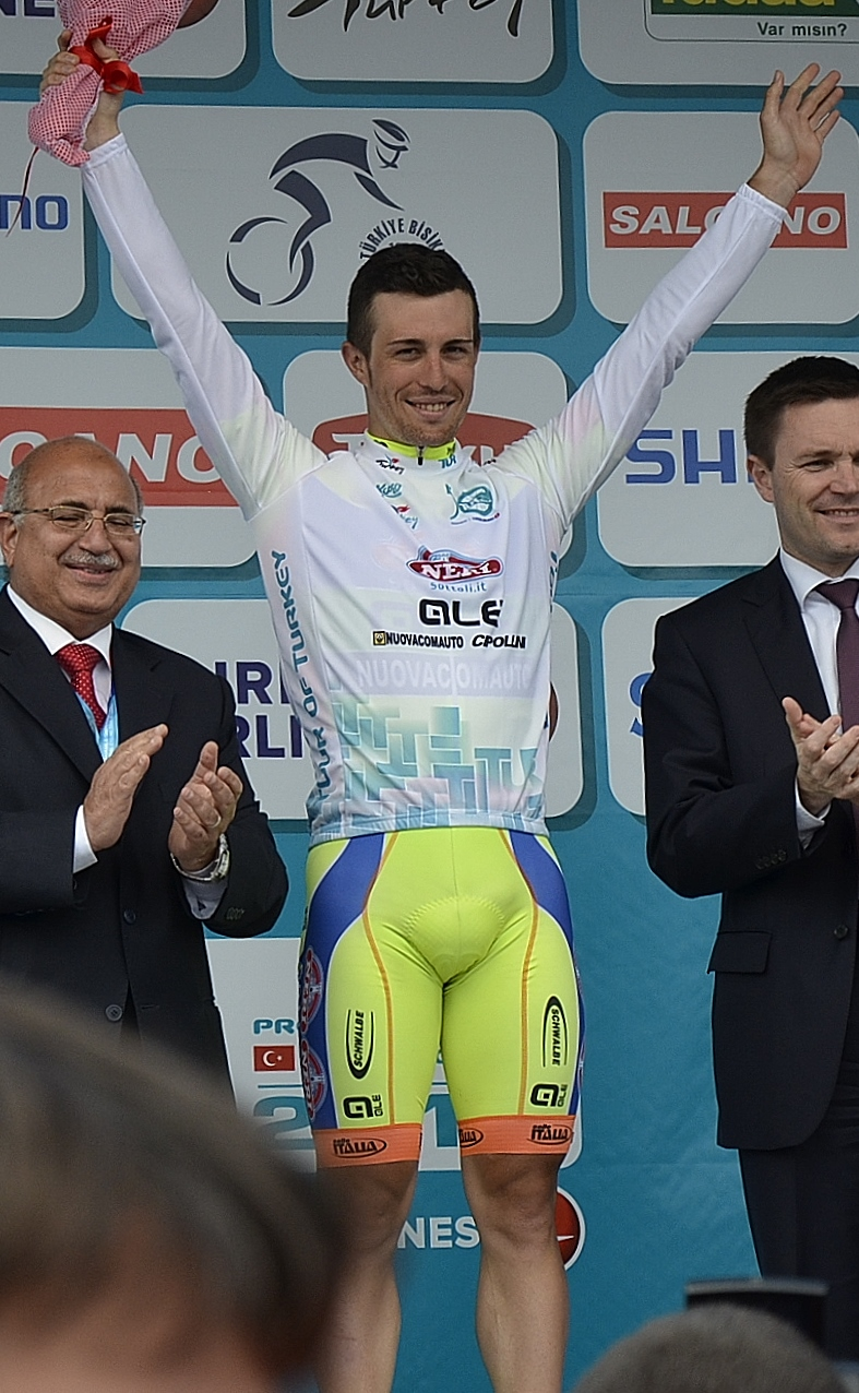 Mattia Pozzo at Tour of Turkey 2014